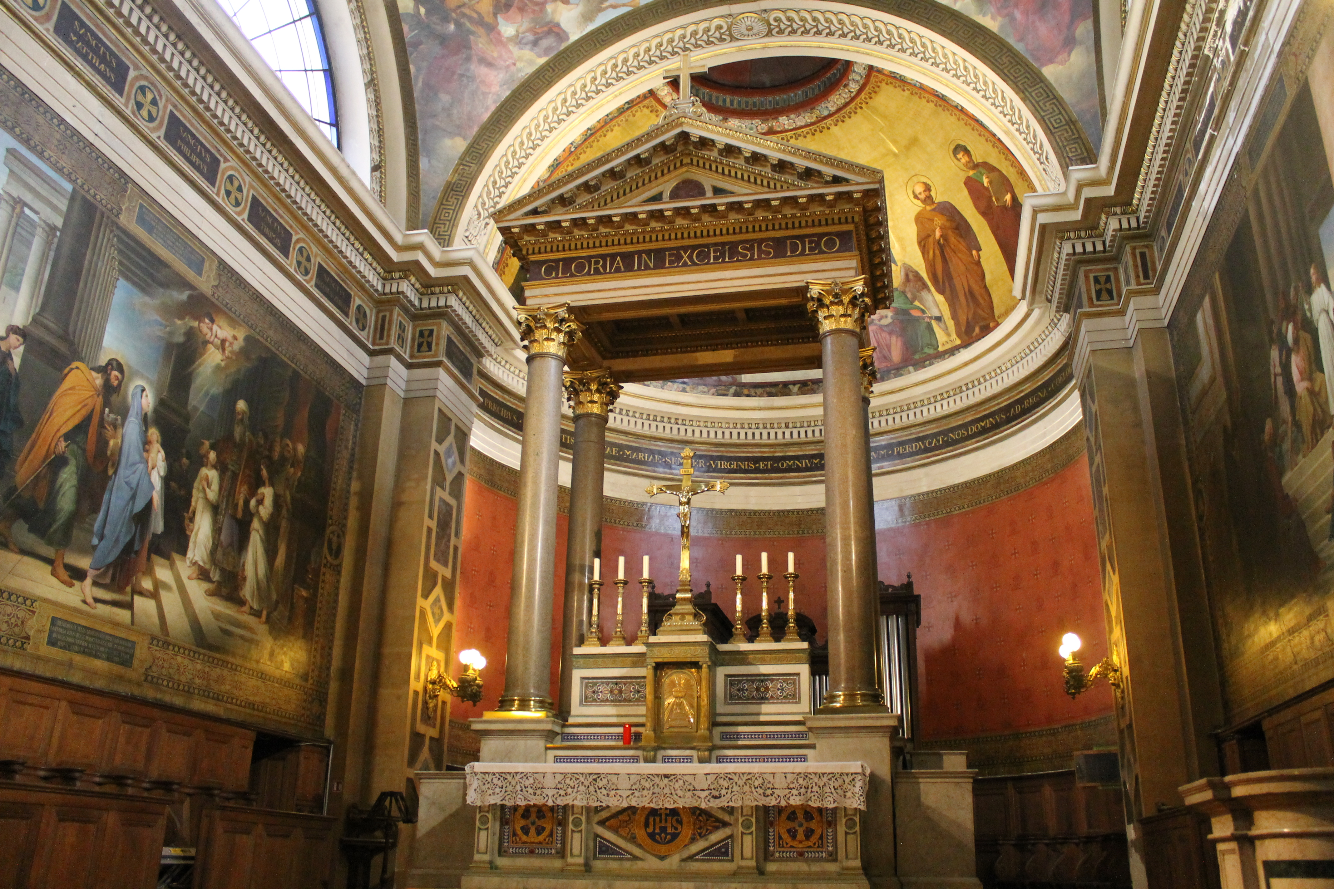 Interior of Église Notre-Dame-de-Lorette, Paris, France.